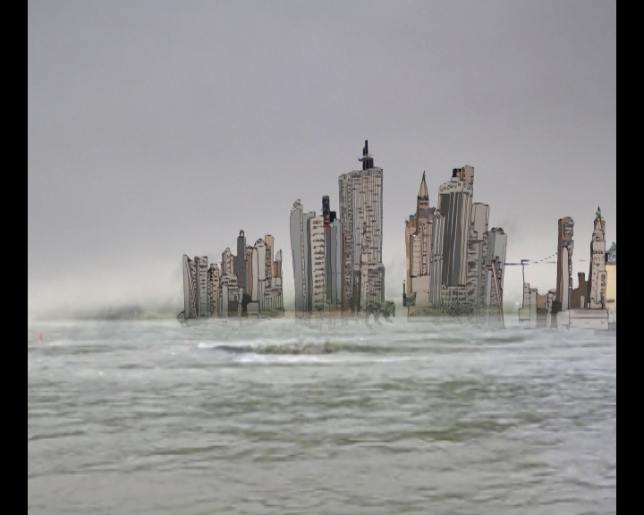 Animation still from an interview-based animation for "Future M" 2016. The animation is based on an interview with Beatrix, a New Yorker originally from Bratislava